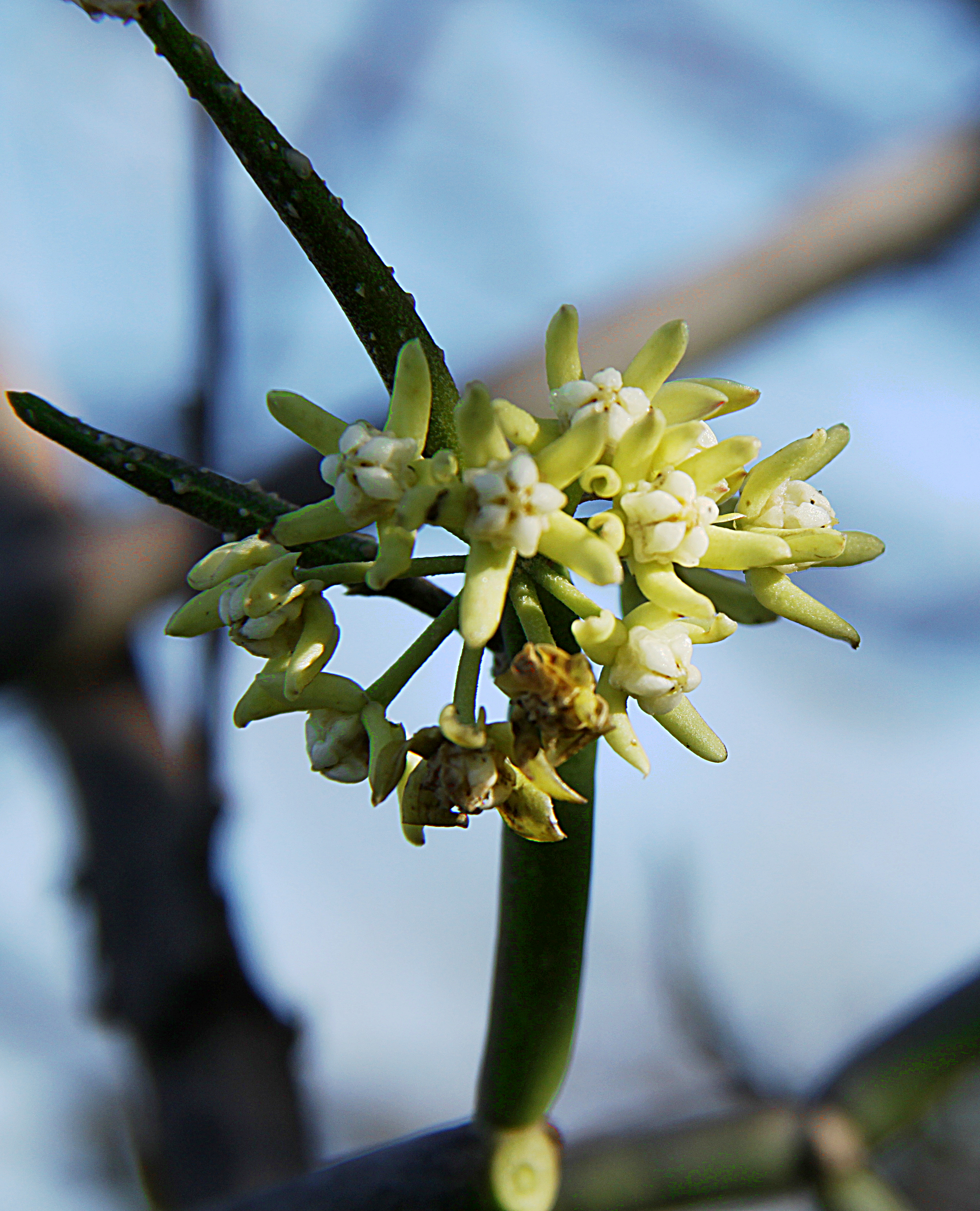 Flowers of Cynanchum viminale, photographed at Manyatta Camp, at the edge of Maasai Mara National Park, Kenya